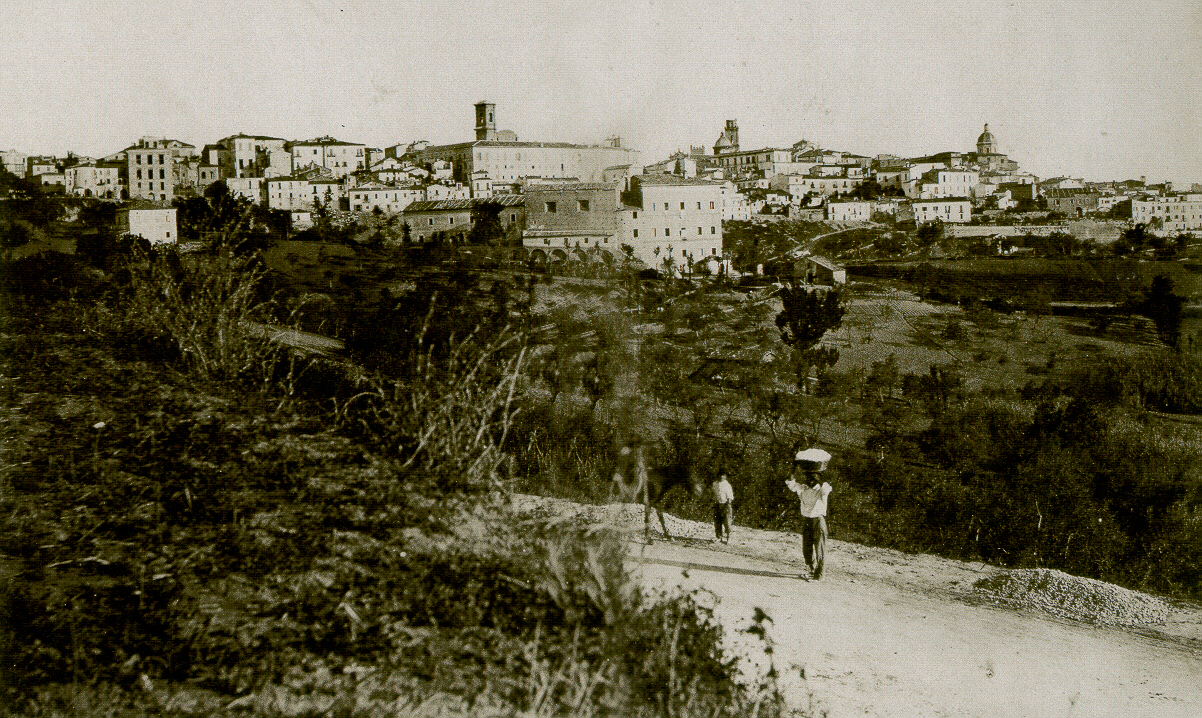 The old city center of Chieti (Italy)